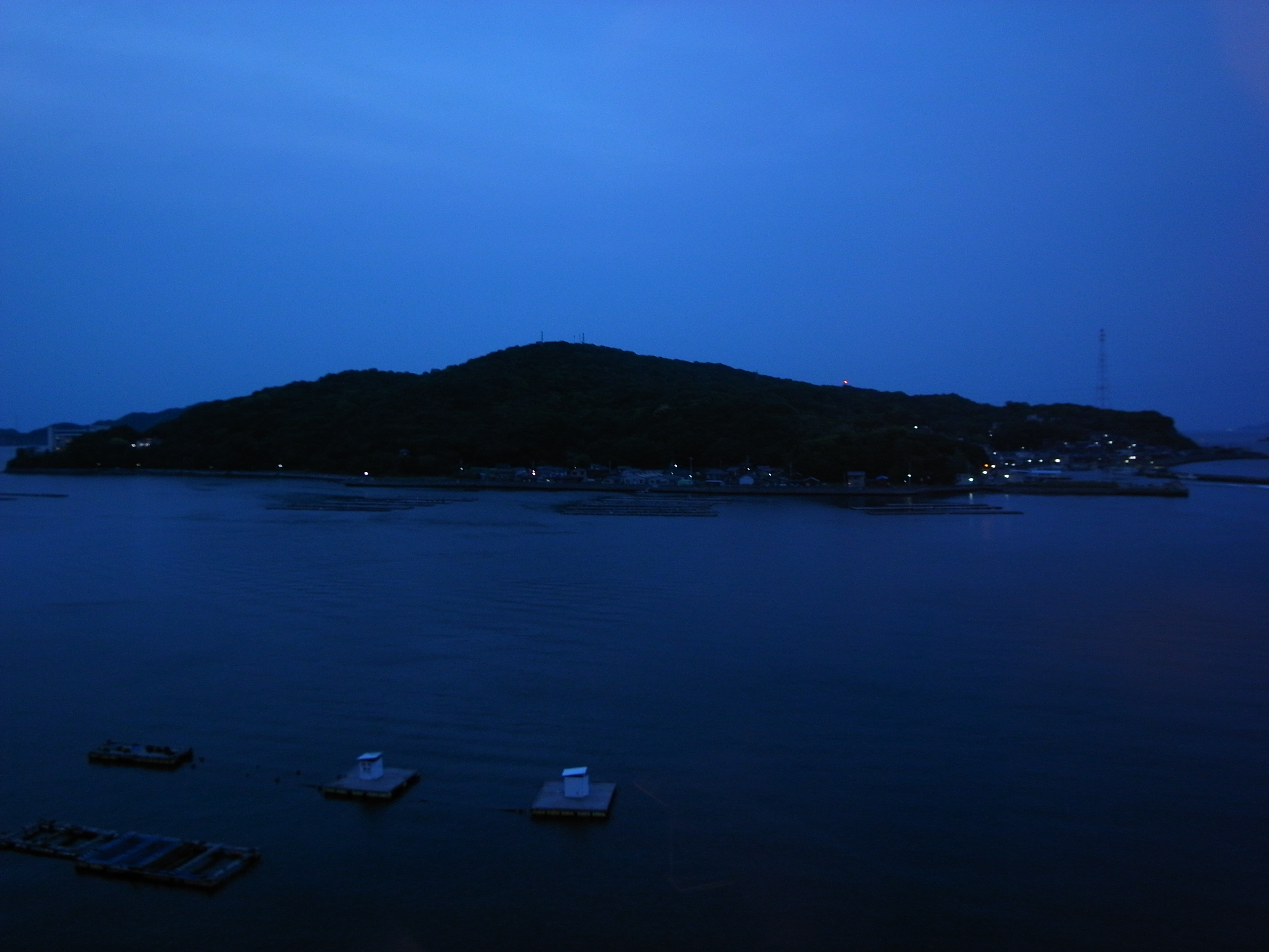 The Port of Toba, Mie, Japan.